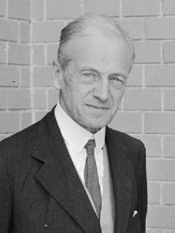 Lord Moyne